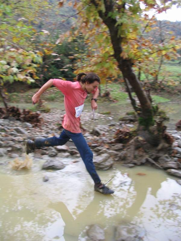 Bojan Zolnaj at the Istanbul 5 days Sprint-Distance